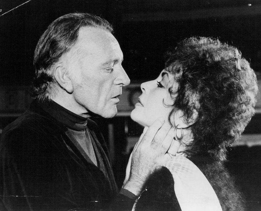 Richard Burton and Elizabeth Taylor in the Broadway play Private Lives (1983)